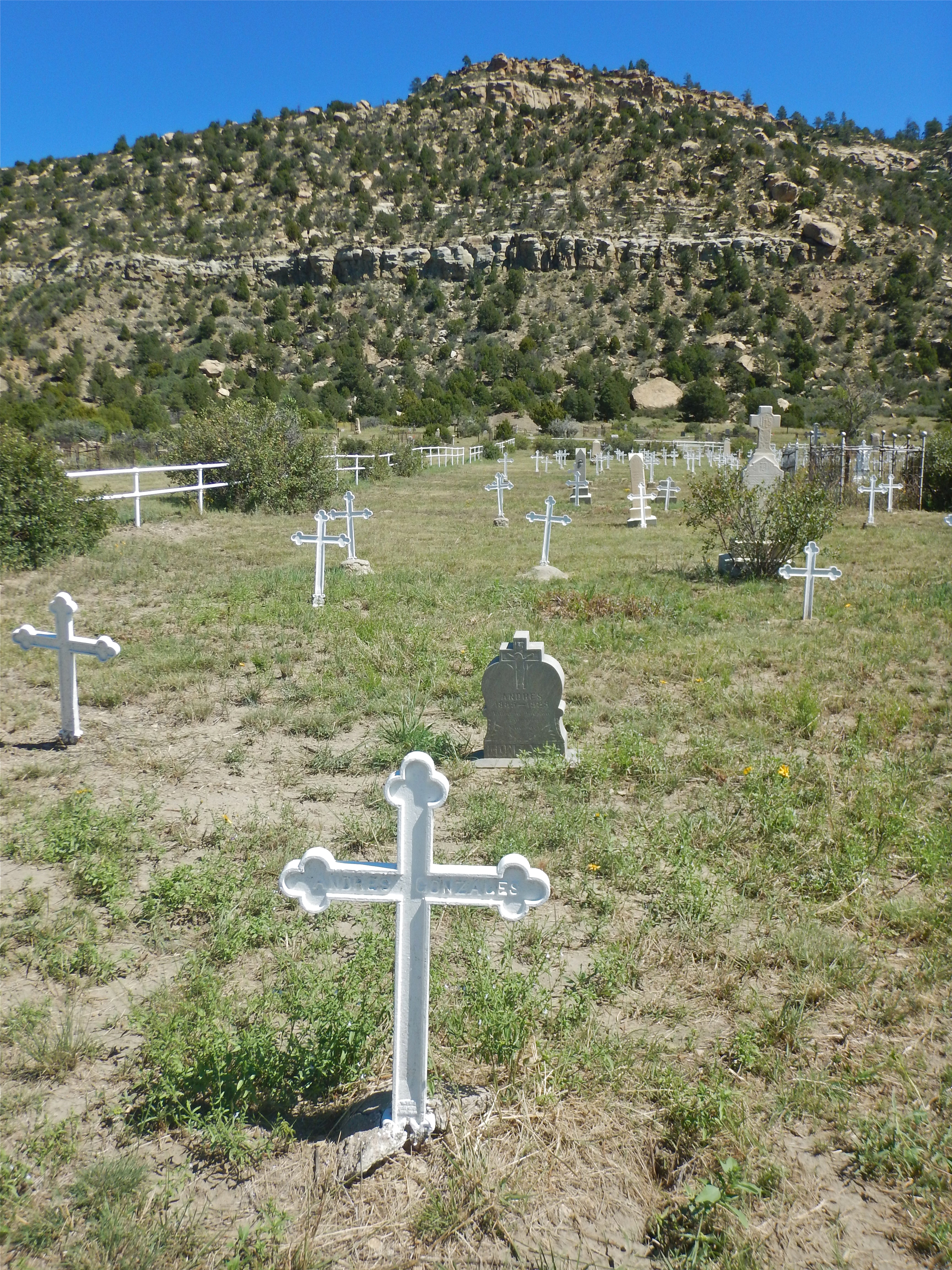 Section of graveyard dedicated to dozens of unmarked crosses where victims of mining disasters were laid to rest in Dawson Cemetery, burial place of hundreds of townsfolk from the old coal mining town of Dawson, NM near Maxwell in Colfax County. Many of those interred were infants and children, but most were miners and their wives. Most of the miners and their families were immigrants from several different countries, chiefly Italy, Mexico, and Eastern European states. Many of the gravestones bear inscriptions in the immigrants' native languages and most were hand-carved between 1910 and 1925, when the town and mining operations were in their heydey.